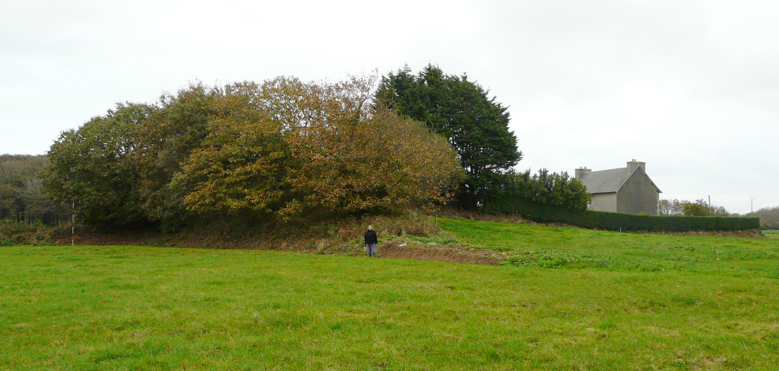 Tumulus de Kernonen en Plouvorn (Finistère)